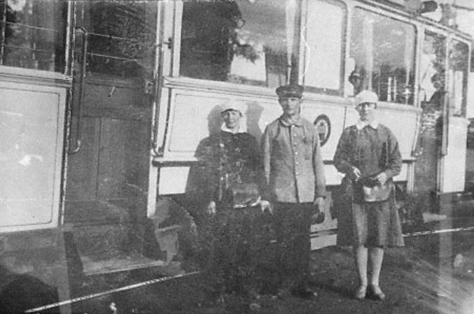 Tram driver Antti Kanninen and two conductors in the 1920s or 1930s, Vyborg, Finland.